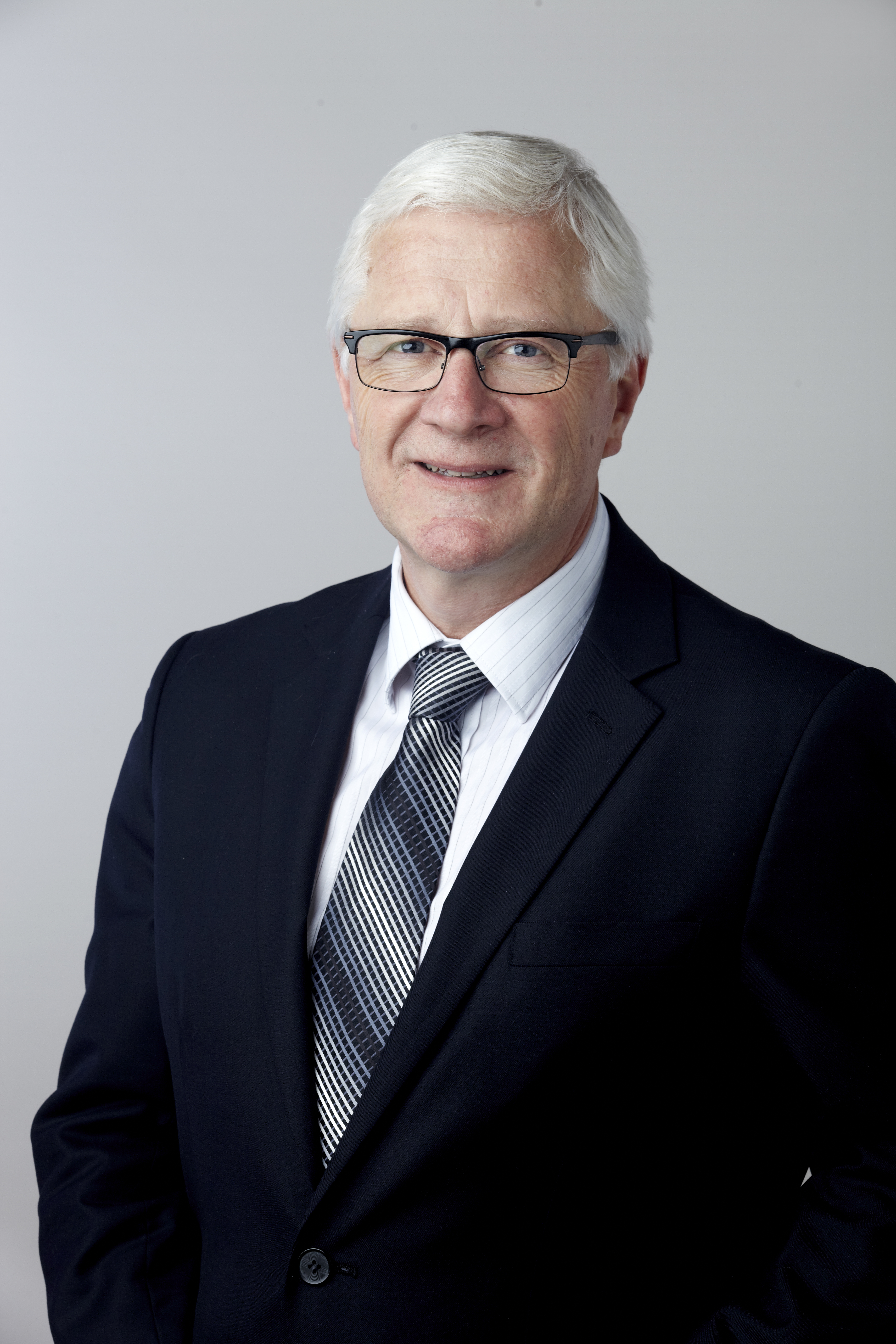 Professor John Dick FRS, Royal Society Fellow elected 2014 Attribution: The Royal Society